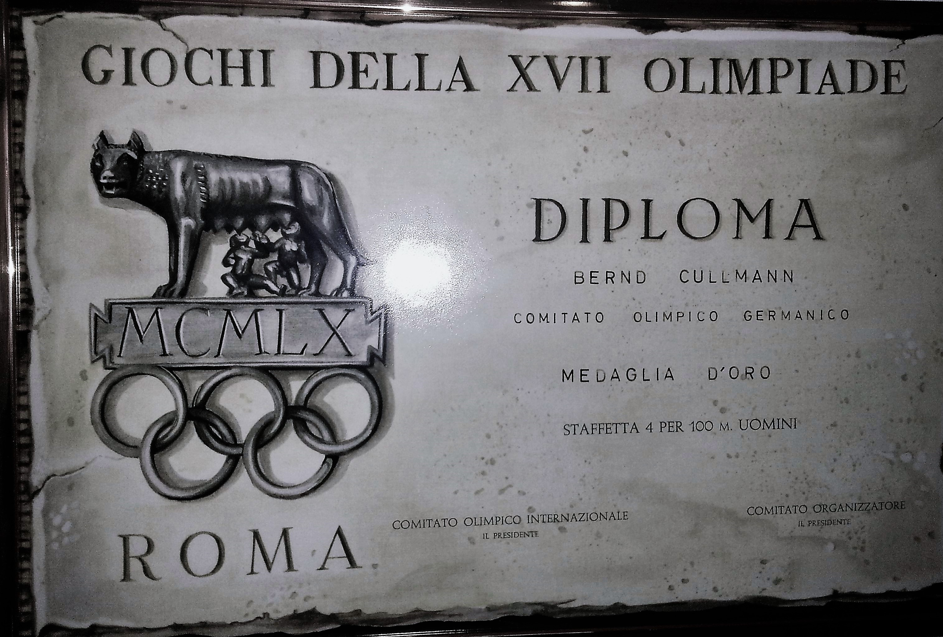 certificate of 1960 summer olympics gold medal of bernd cullmann. Urkunde der Goldmedaille von Bernd Cullmann aus Idar-Oberstein.